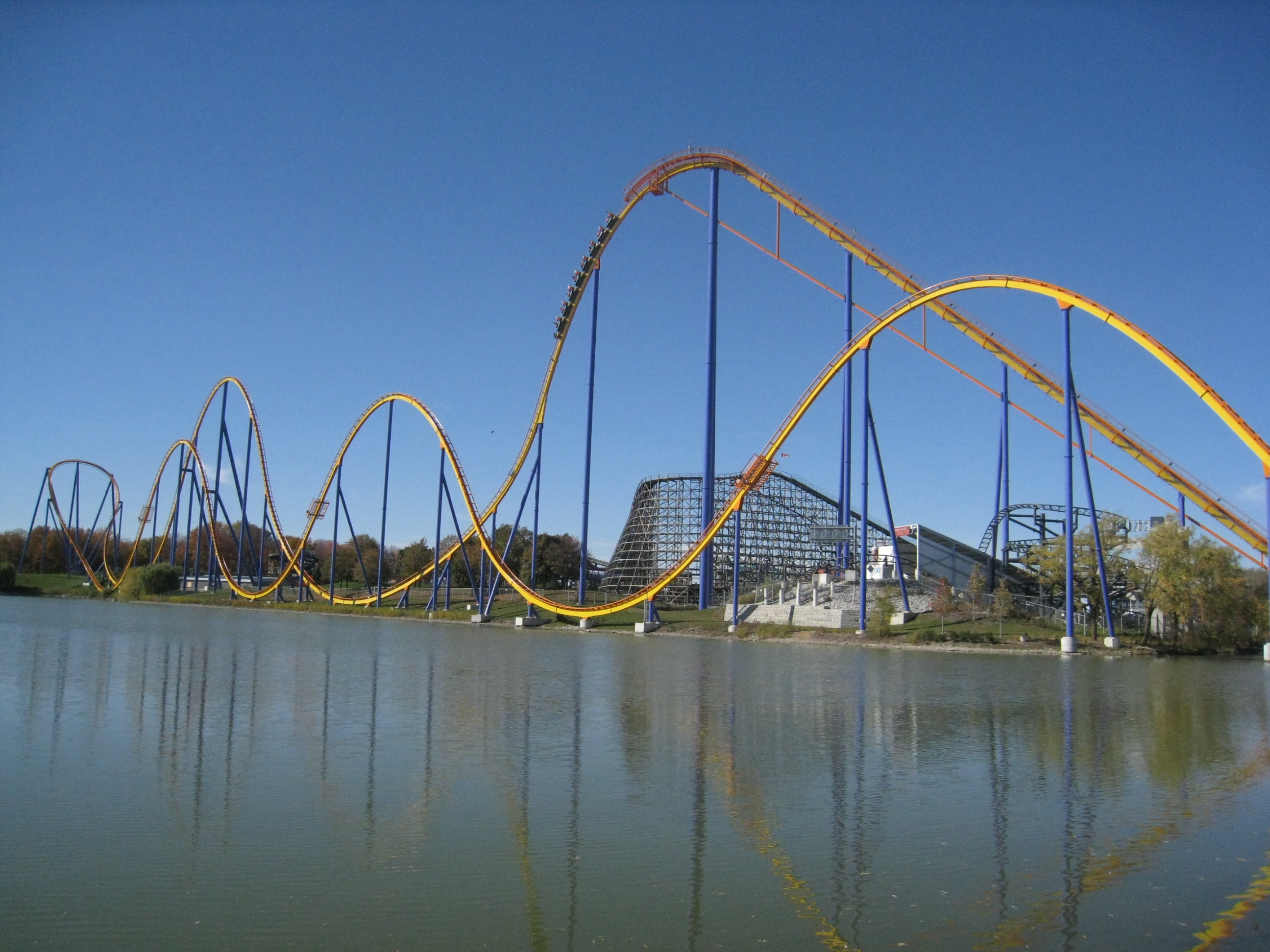 Behemoth as seen from employee access area.